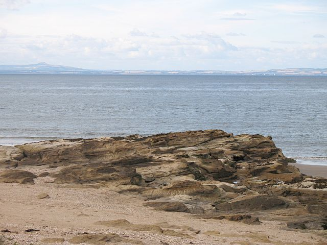 Sandstone on the beach Sea eroded rock on a beach near Gullane